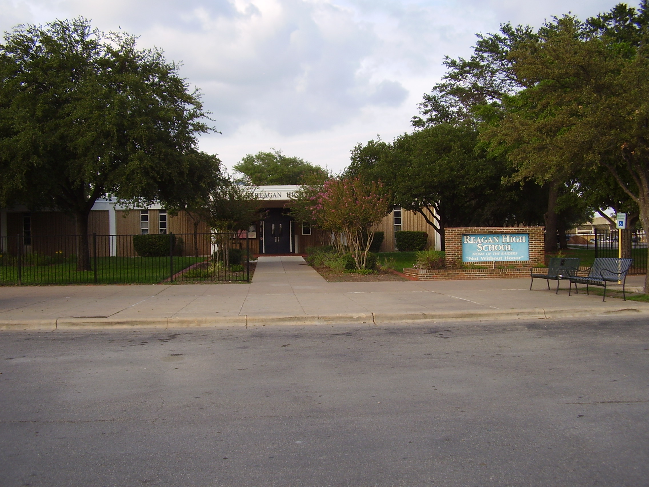 Reagan High School in Austin